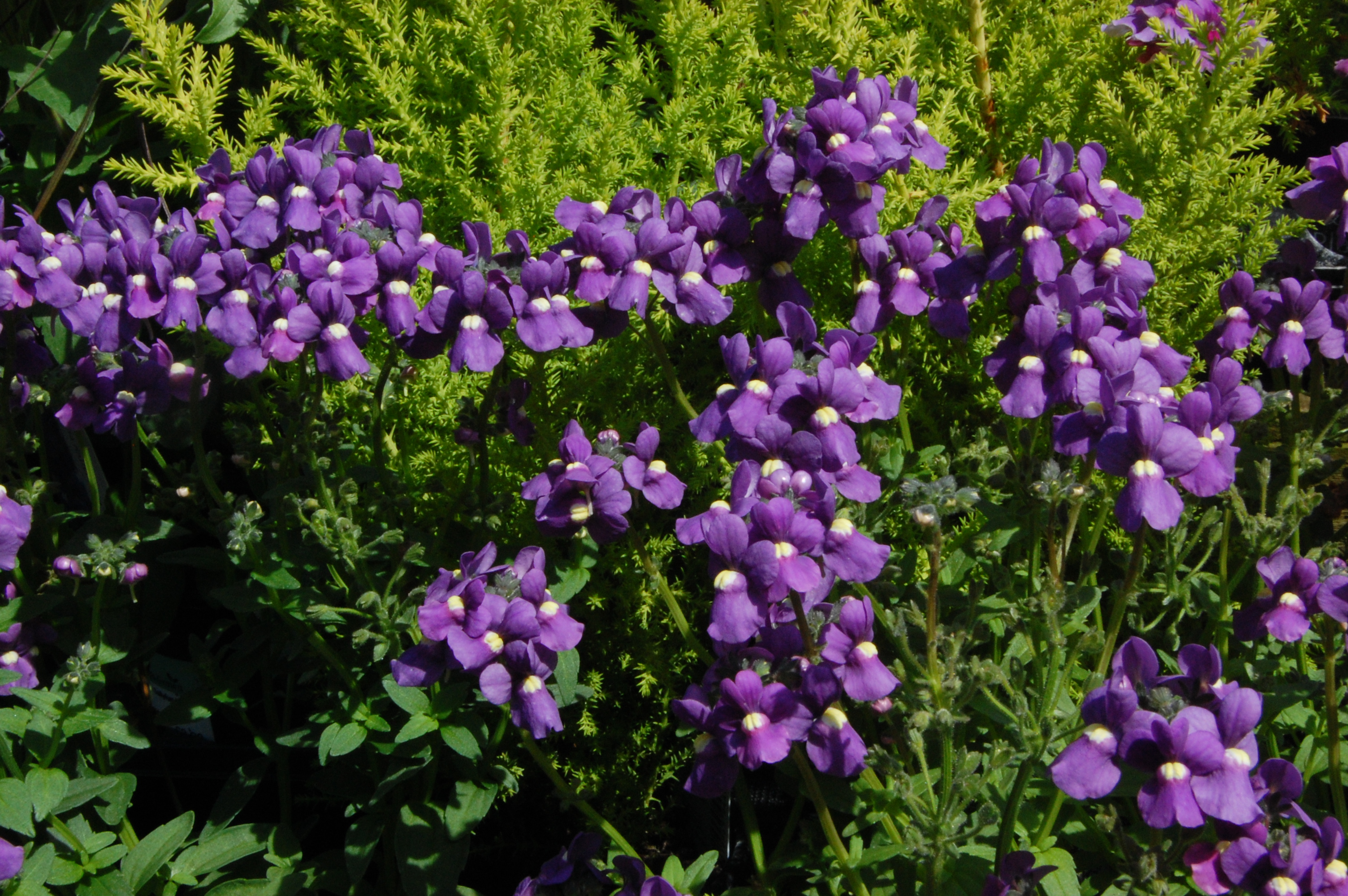 Nemesia 'Fleurie Blue' on sale at a garden centre in the English midlands.